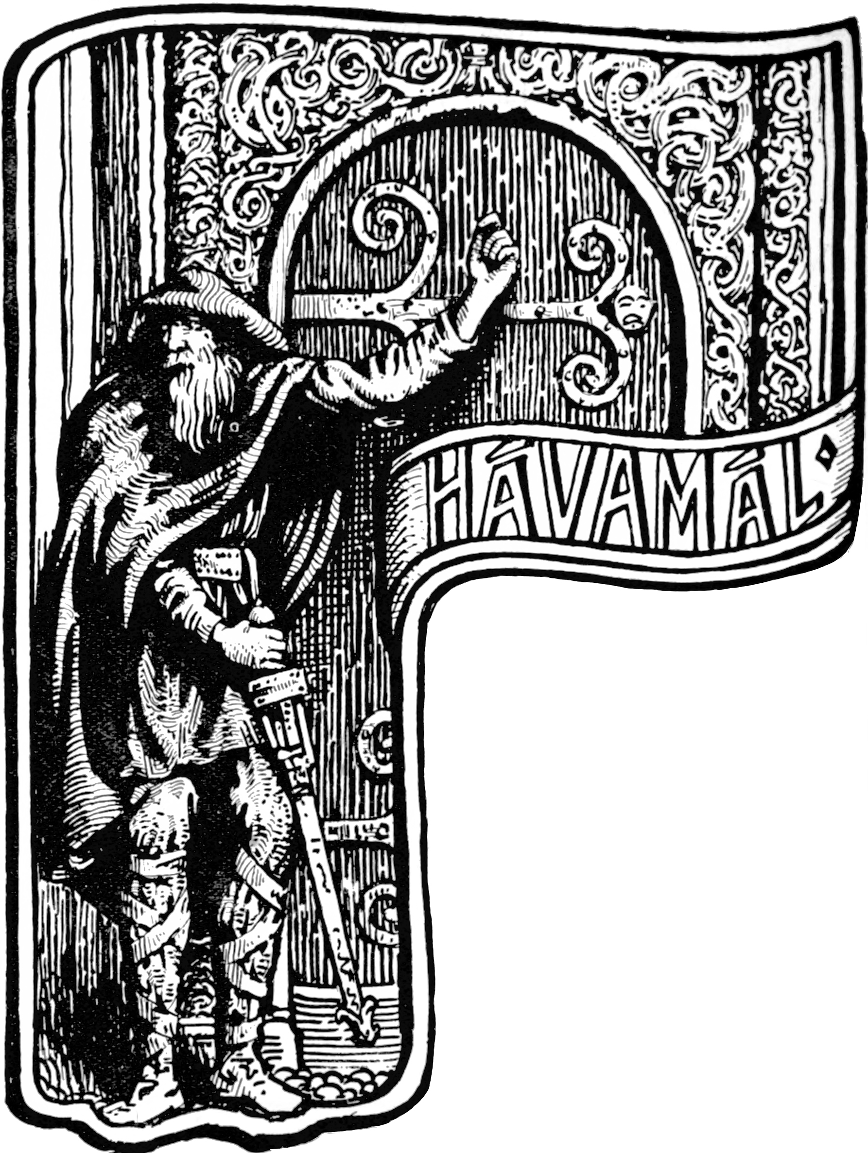 Illustration to Hávamál. The list of illustrations in the front matter of the book gives this one the title The Stranger at the Door.